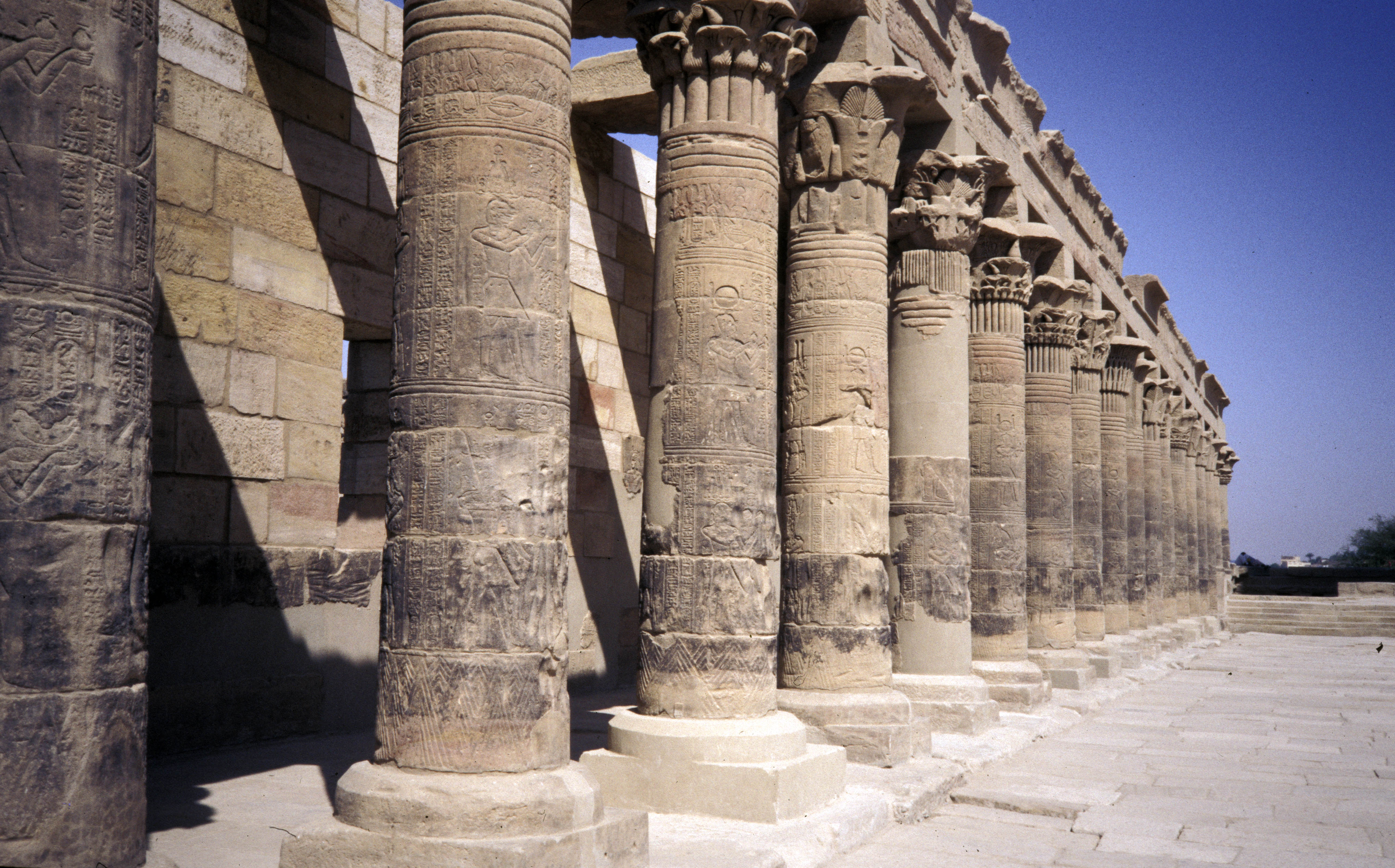 Colonnade in Philae, Egypt